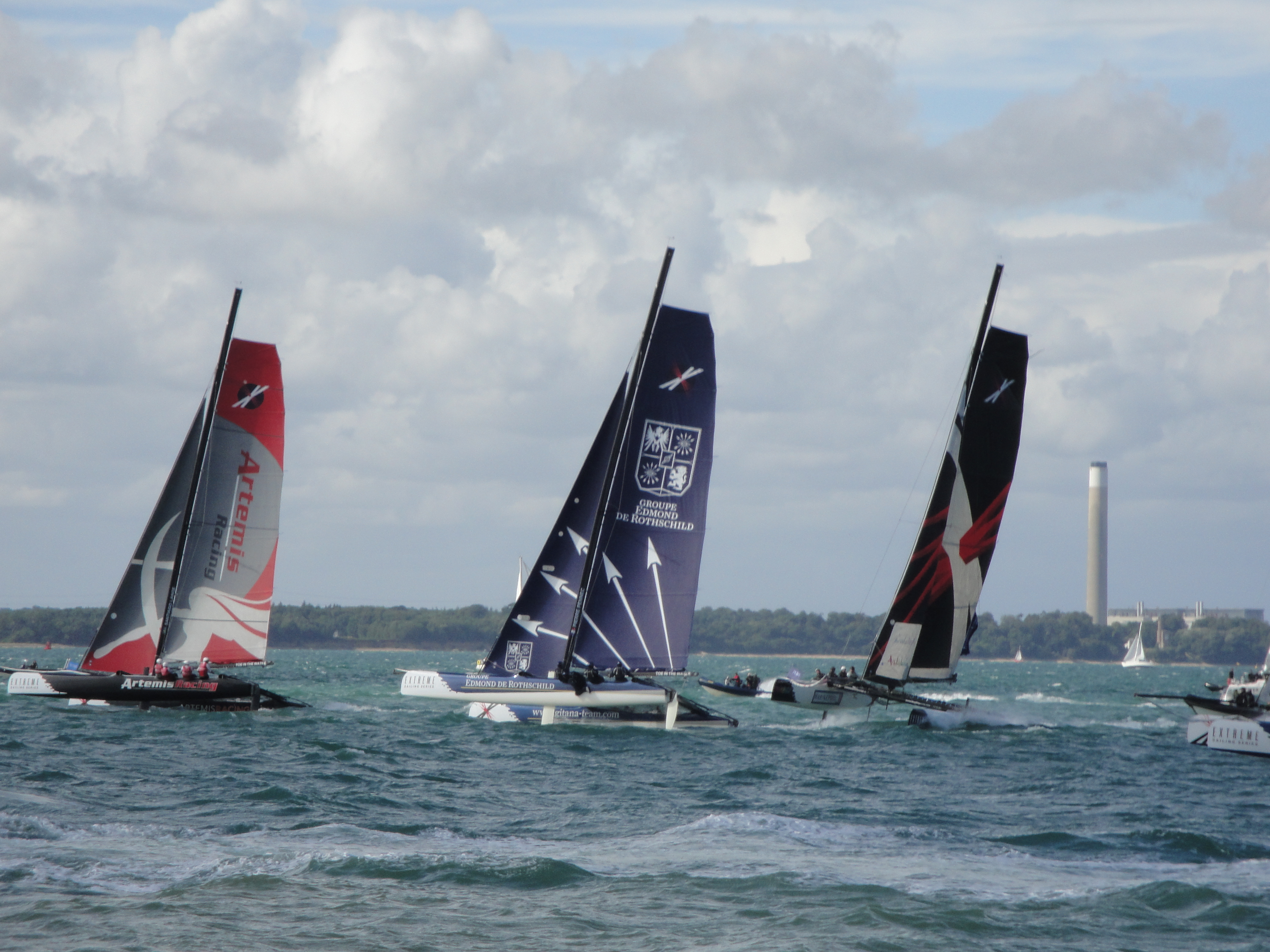 Extreme 40 class sailing catamarans, seen racing off Egypt Point, Cowes, Isle of Wight during Cowes Week in 2011. Cowes was a stage on the Extreme 40 races for 2011. Races were run off Egypt Point (by the Extreme 40 tent), and were separate from the standard Cowes Week races (that start from the Royal Yacht Squadron).